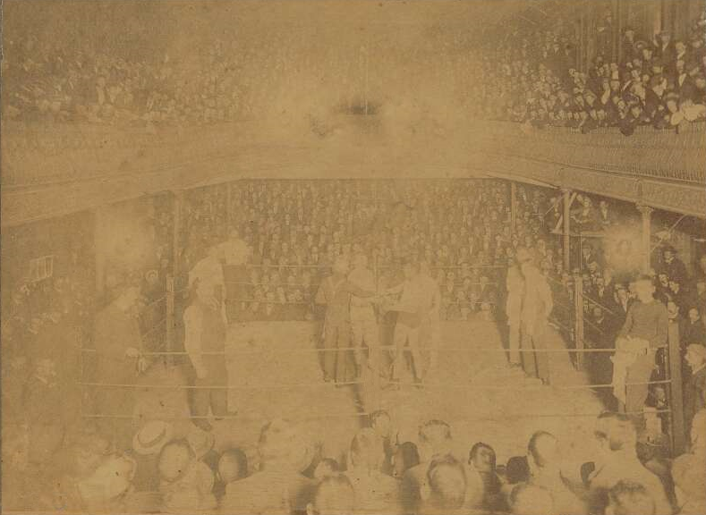 "The Gaiety Hall Sydney July 21st 1901. Mick Dunn, white trunks, verses Otto Cribb for the middleweight title. Dunn won by ko in the ninth round. Cribb was found dead in his bed the next morning"--In ink on verso.